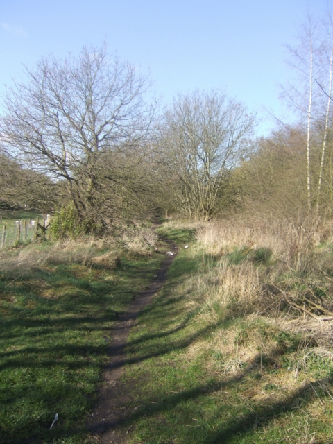 Former colliery railway The footpath runs along the trackbed of the mineral railway which served Hilton Main Colliery. In the early 1960s as a child I was often taken by my mother to see a small steam engine pulling a trainload of coal. This would happen every day at around 4pm. The line was an extension of the Wolverhampton and Cannock Chase Colliery's Line to the Essington and Holly Bank pits. There was a connection to the Walsall to Cannock Line at Norton. A spur ran to the Rosemary Brick and Tile Works.